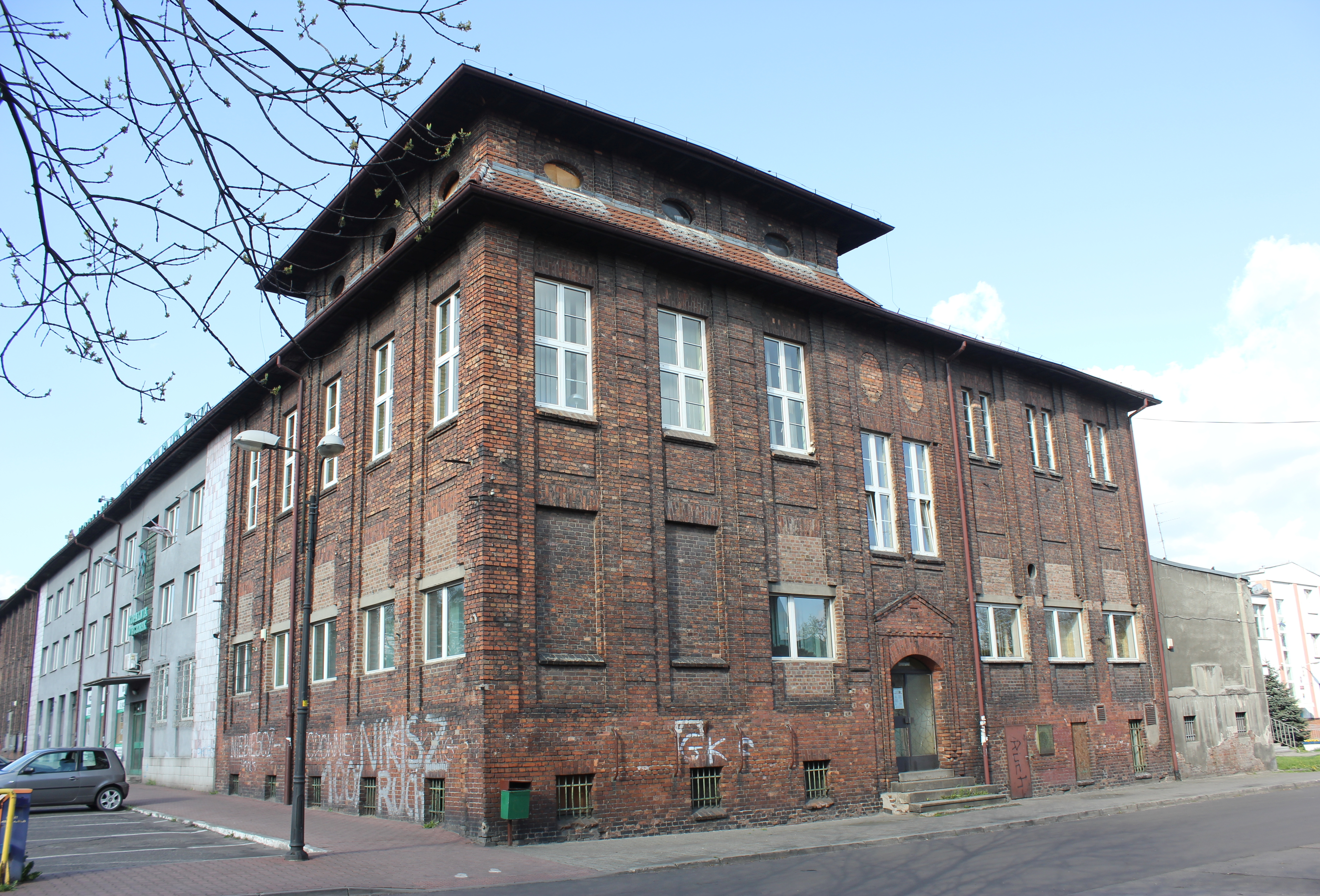 Katowice - Nikiszowiec